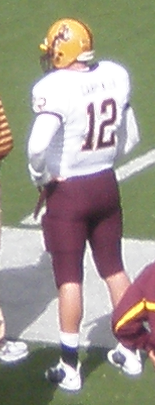 Arizona State Sun Devils quarterback Rudy Carpenter on the sideline during an away game against the California Golden Bears. The Golden Bears won 24-14.